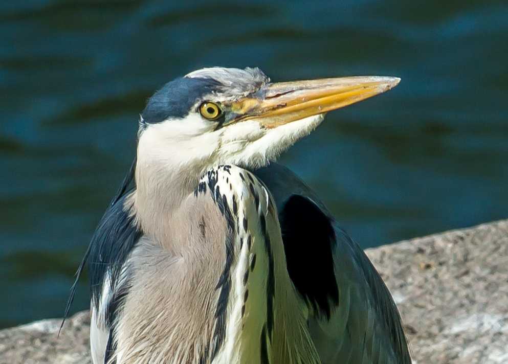 Gray heron in the middle of Stockholm's city outside the Riksdag building on a search for salmon and trout.